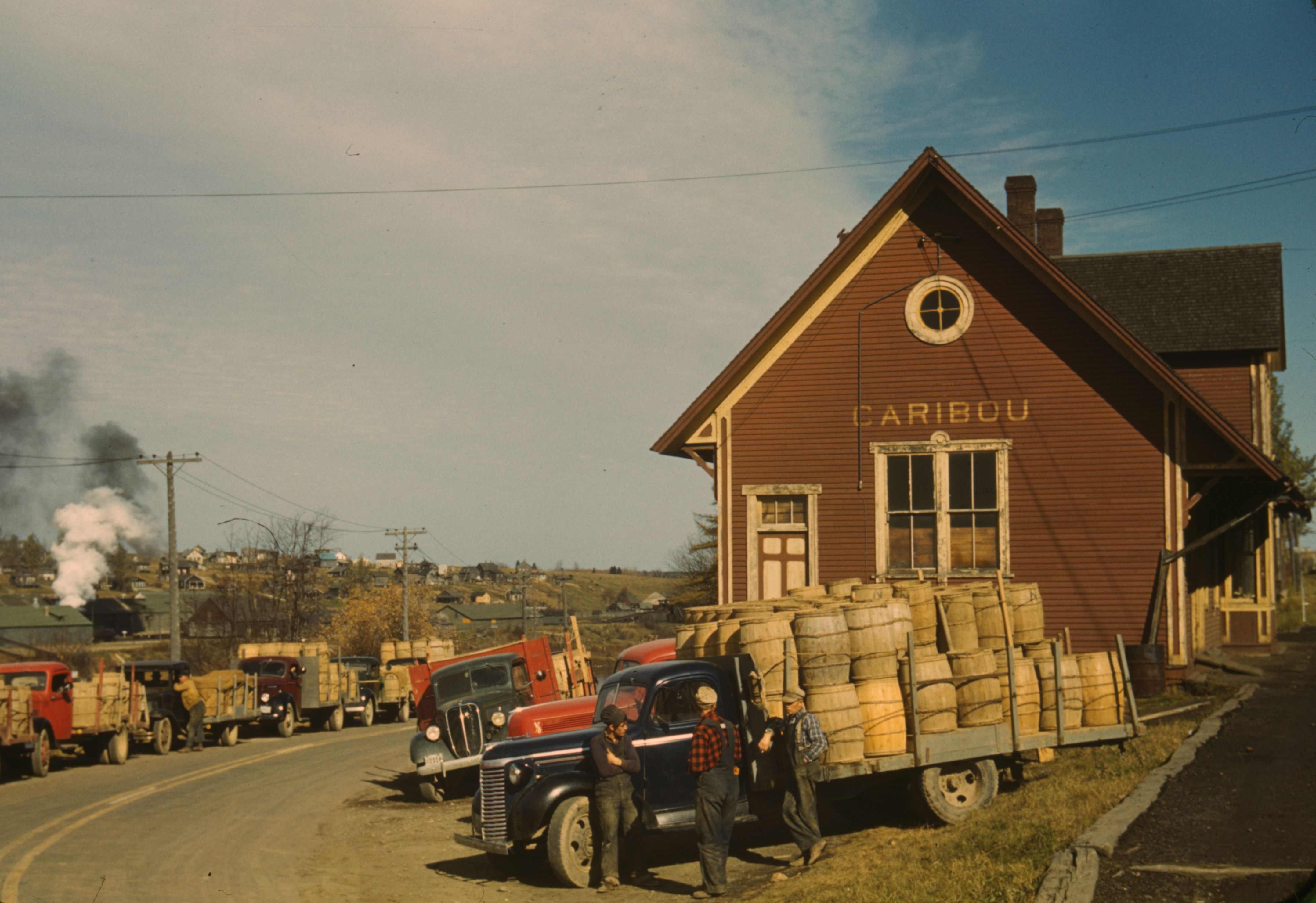 Trucks outside of a starch factory in Caribou, Aroostook County, Maine, October 1940. Reproduction from color slide.